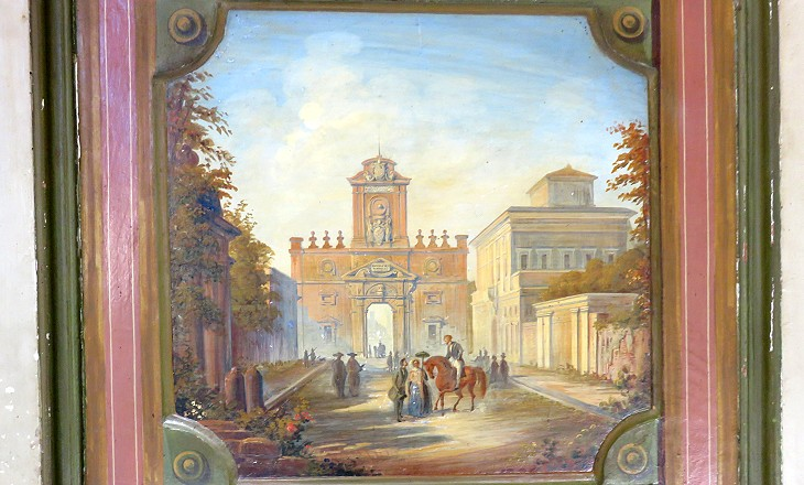 Via Ventti Settembre with Porta Pia, Villa Costaguti Torlonia and Villa Paolina (cupboard in the Vatican Library)